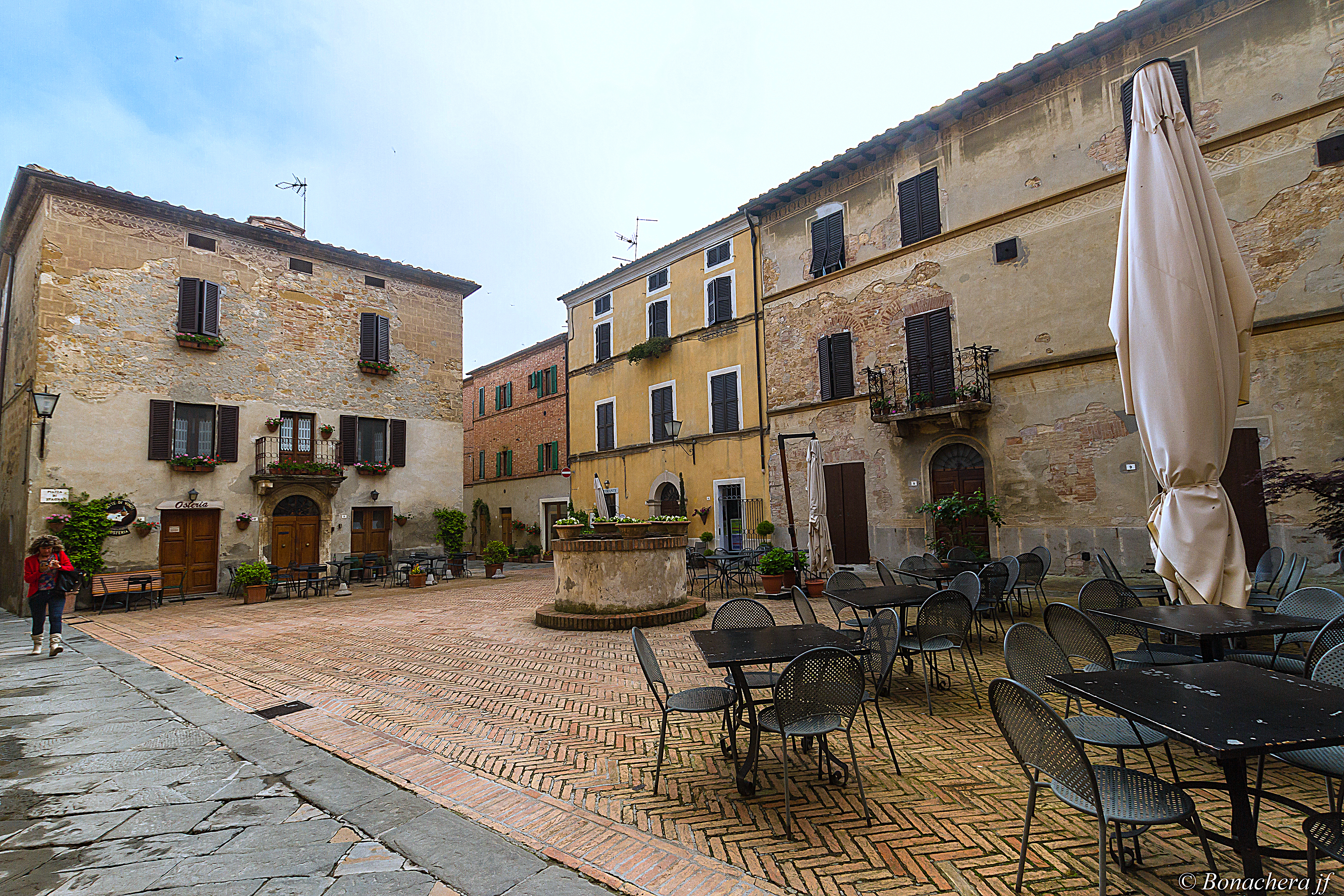 Piazza di Spagna